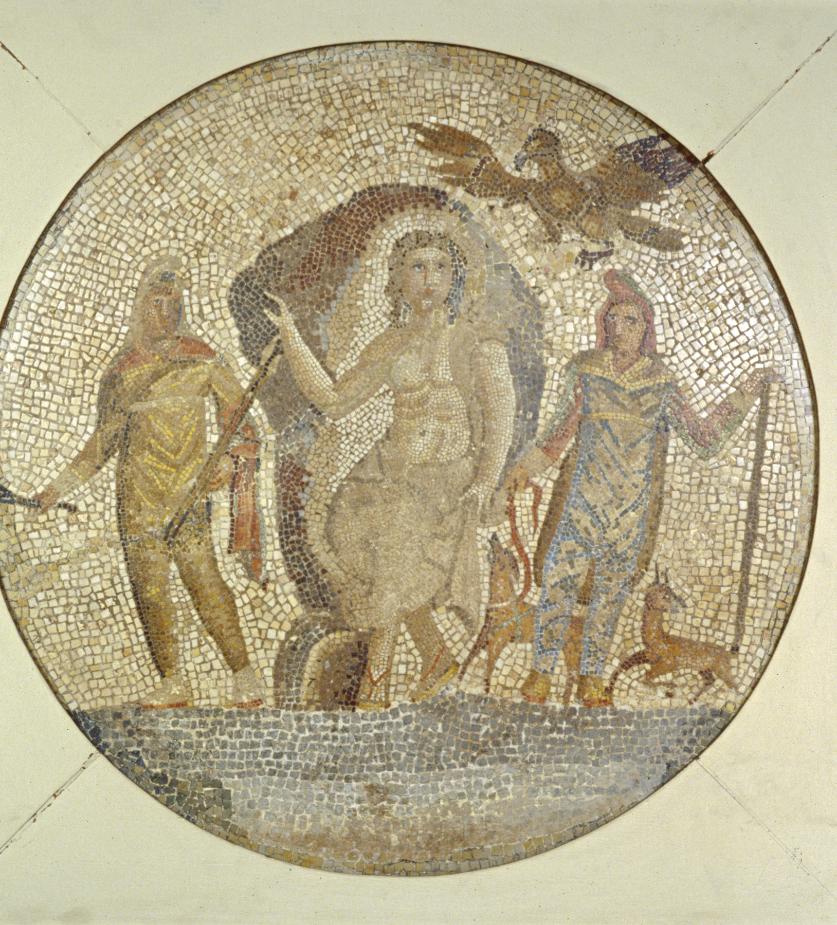 Mithras was a Persian creation god, as well as the god of light. Mithraism, the mystery religion associated with him, spread throughout the Roman Empire. Initiation into Mithraism was restricted to men and was especially popular with soldiers in Rome and on the northern frontier during the 2nd and 3rd centuries AD. According to the Persian myth, the sun god sent his messenger, the raven, to Mithras and ordered him to sacrifice the primeval white bull. At the moment of its death, the bull became the moon, and Mithras's cloak became the sky, stars, and planets. From the bull also came the first ears of grain and all the other creatures on earth. This scene of sacrifice, central to Mithraism, is called the Tauroctony and is represented as taking place in a cave, observed by Luna, the moon god, and Sol, the invincible Sun god, with whom he became associated in Roman times. Mithras is generally depicted flanked by his two attendants, Cautes and Cautopates, and accompanied by a dog, raven, snake, and scorpion. This central medallion from a floor mosaic depicts the birth of Mithras. Emerging from a rock, he is flanked by his two attendants, Cautes and Cautopates. Above him flies the raven, associated with the creation myth and with the first level of initiation into his cult.